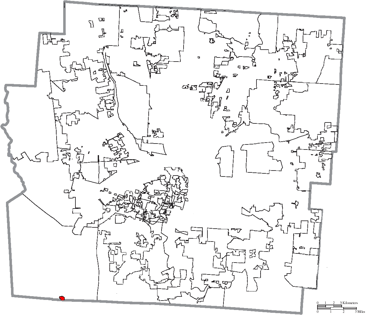 Map of the municipal and township boundaries of Franklin County, Ohio, United States, as of the 2000 census, with the location of the village of Harrisburg highlighted. Township borders are shown only in unincorporated areas in order to differentiate incorporated and unincorporated areas more clearly. Due to the extremely fractured nature of the county's municipal boundaries, details of boundaries and the identity of township islands may be inaccurate.